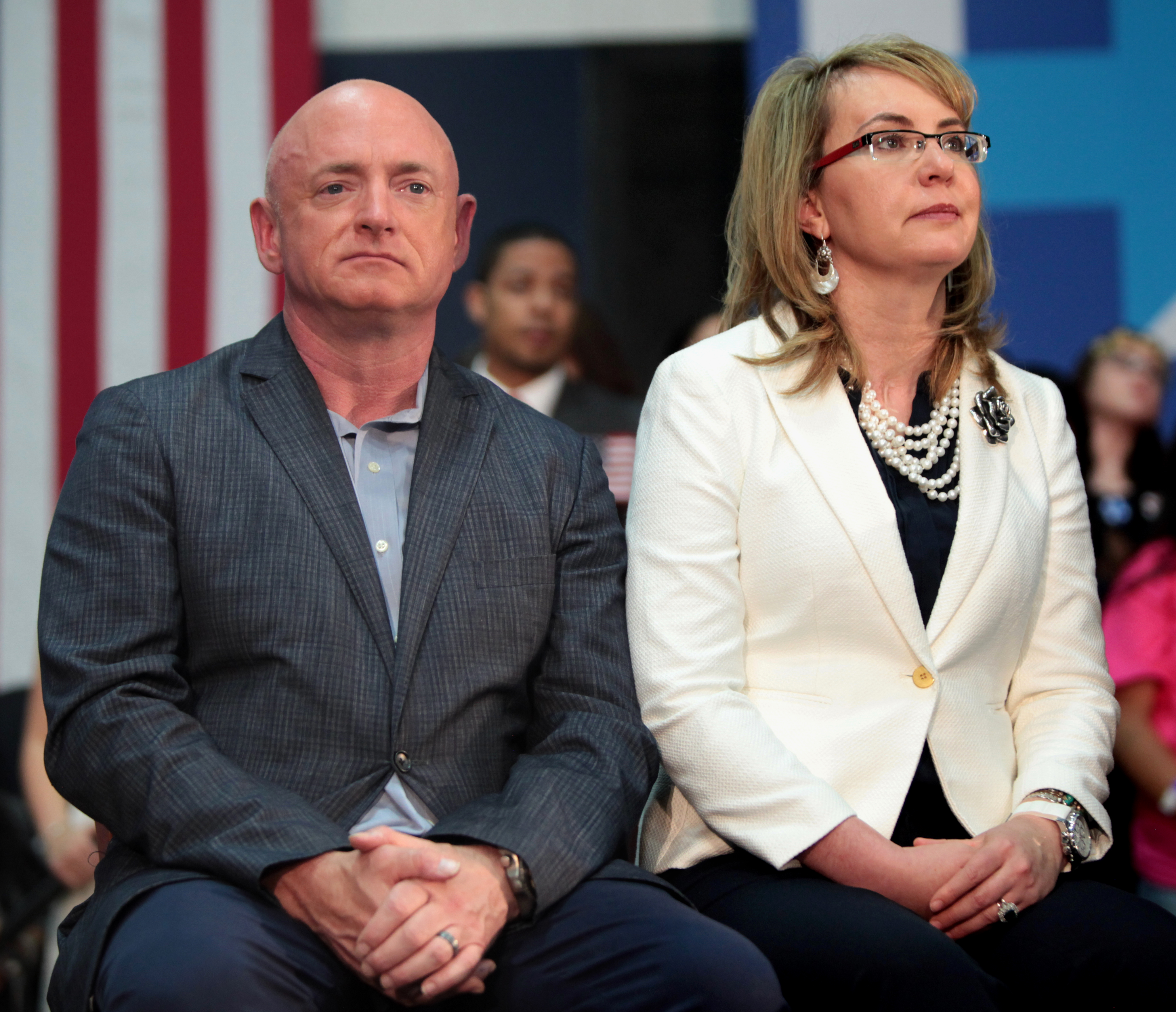 Mark Kelly and Gabrielle Giffords speaking at an event in Phoenix, Arizona.